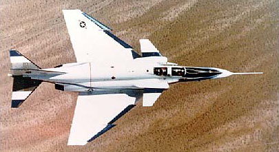 A McDonnell YF-4E Phantom II with canards of high-maneuverability test program. USAF text: "The airframe on display at the museum was originally an F-4B-14 diverted from U.S. Navy production, modified as a prototype for the RF-4C reconnaissance version (USAF S/N 62-12200) and later the F-4E fighter-bomber variant. It also was the test bed for such advanced ideas as F-4 leading edge slats and the "Fly-By-Wire" concept (electrical rather than mechanical interconnections between pilot and control surfaces). A final modification added distinctive wing-like canard surfaces to examine the Precision Aircraft Control Technology (PACT) configuration for mission and performance improvements. It was delivered to the museum from McDonnell Douglas in 1979. " Original caption: "McDonnell Douglas YF-4E Precision Aircraft Control Technology. (U.S. Air Force photo)".